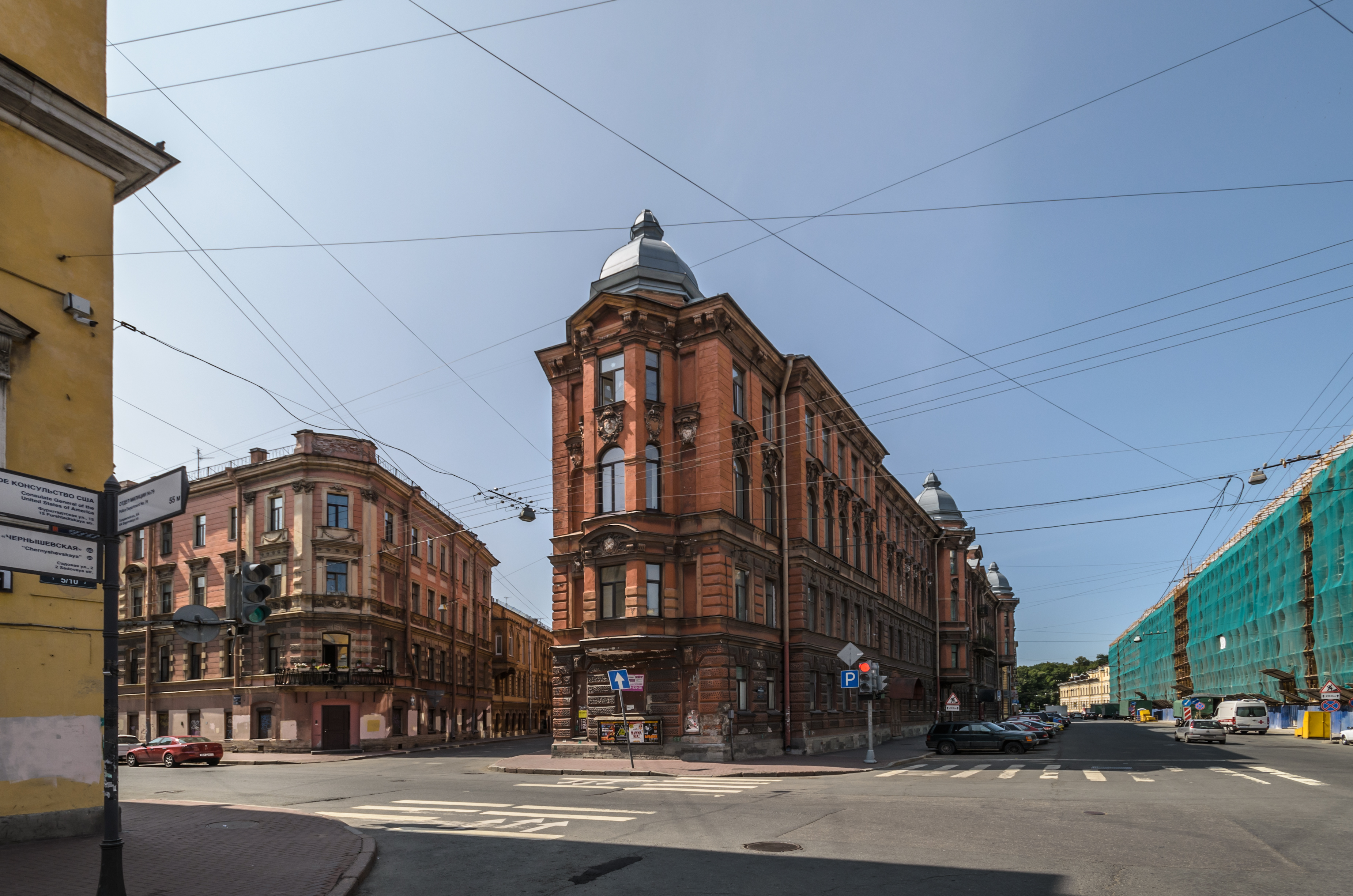 Chaykovskogo Street in Saint Petersburg